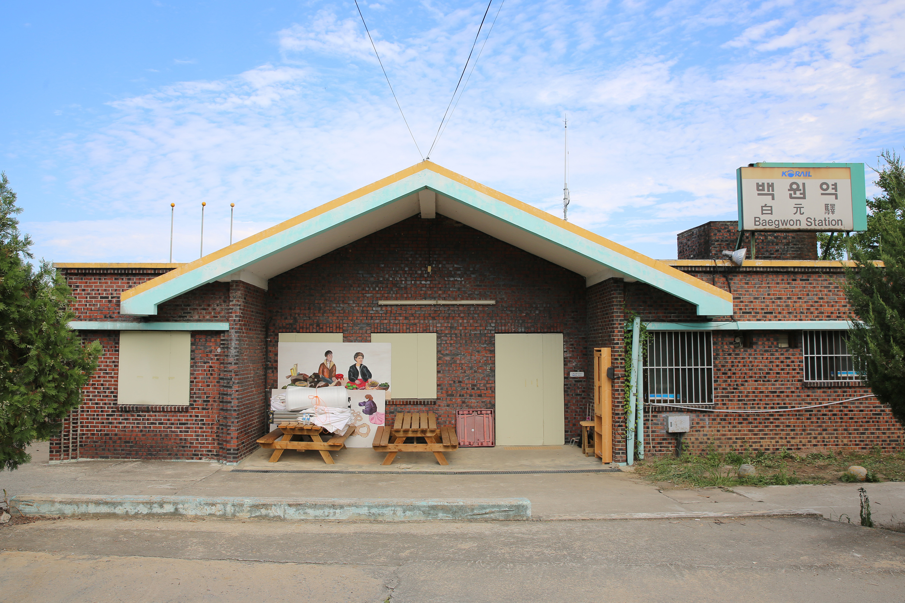 Obverse of Building from the Square of Baegwon Station